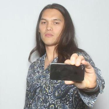 Antonio Buehler, founder of the Peaceful Streets Project and Buehler Education, using his phone as a camera to film police.